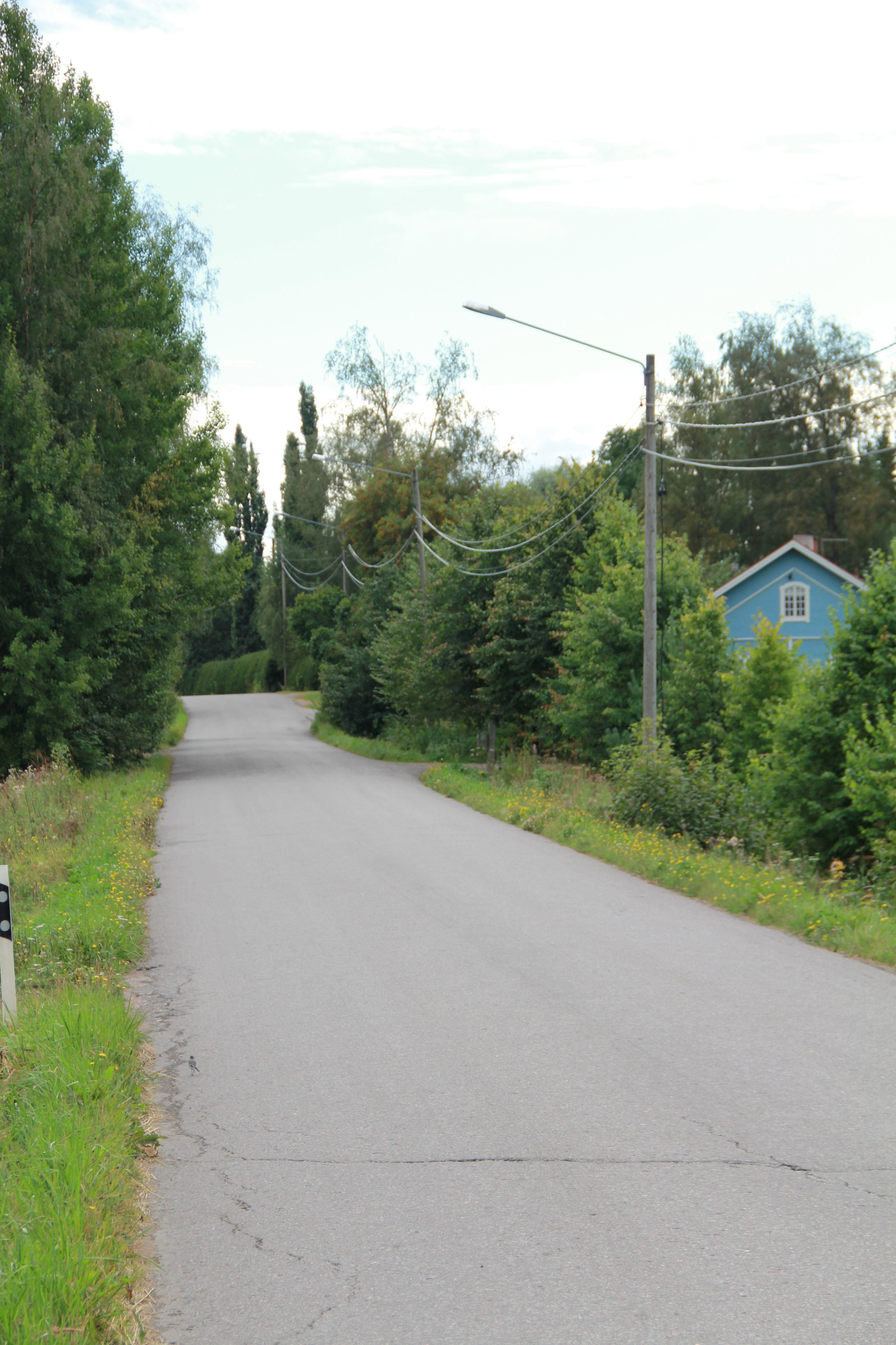 Pyhäjoki, a village in Säkylä, Finland. Local road no. 12699.